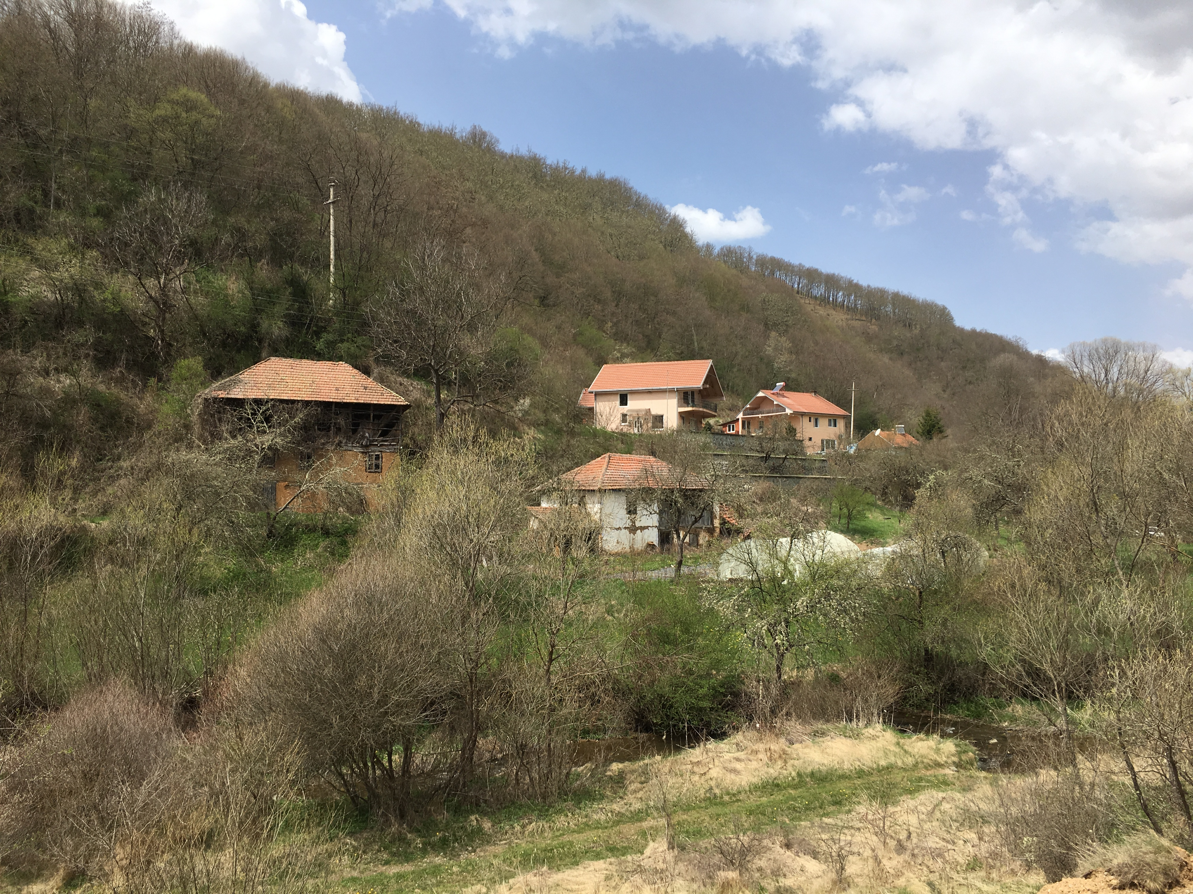 Houses in the village of Dobrovnica